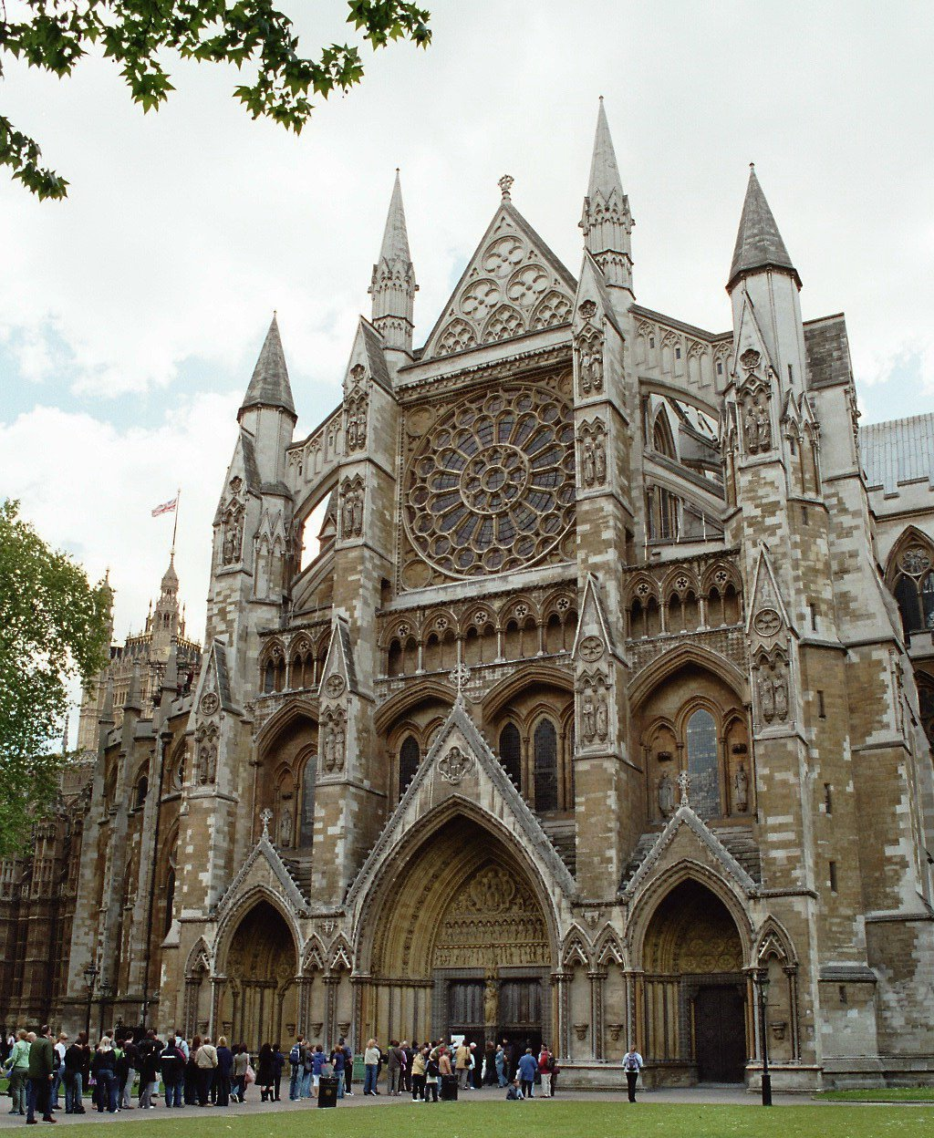 Westminster Abbey, London, northern portal